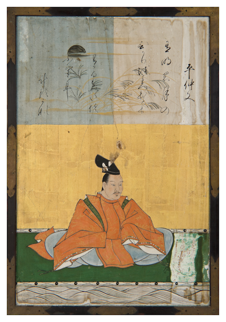 Sanjūrokkasen-gaku (Thirty-six Poetry Immortals framed picture) #34: Taira no Nakafumi (Fujiwara no Nakafumi)